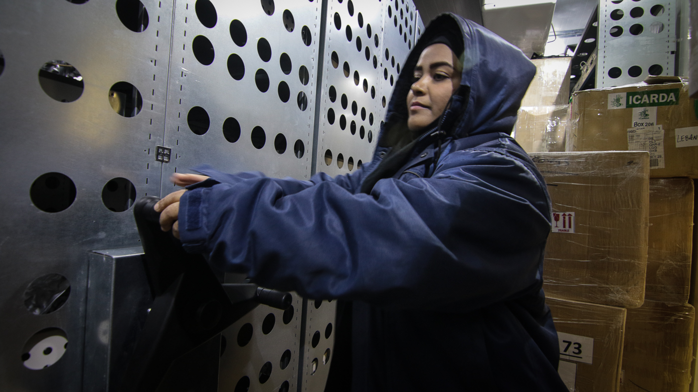 A seed bank in the International Center for Agricultural Research in the Dry Areas, or ICARDA, site in Bekaa Valley holds around 40,000 seed samples — compared to 150,000 in Syria.